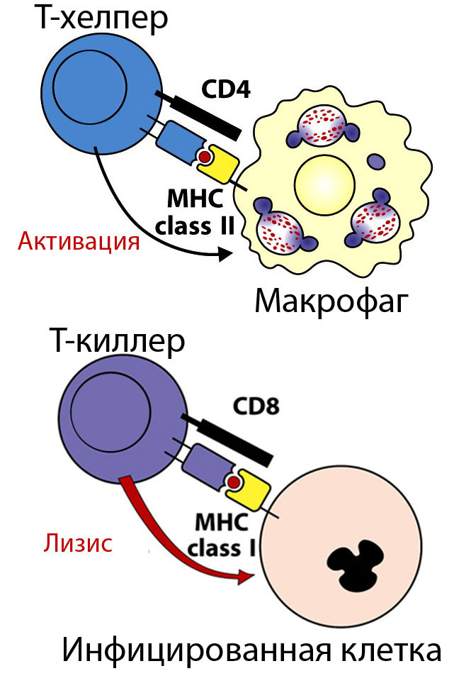 T helper T killer action